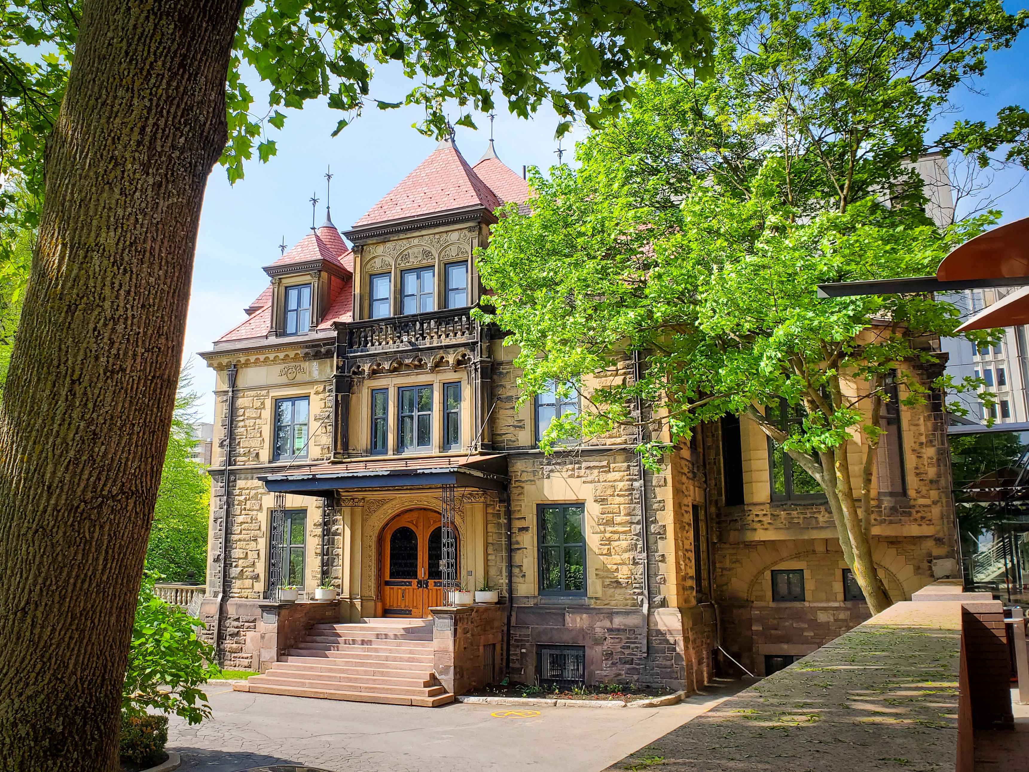 Photograph of Old Chancellor Day Hall, a building that was initially the Ross Mansion. The building is part of the downtown campus of McGill University, in Montreal, Quebec, Canada.